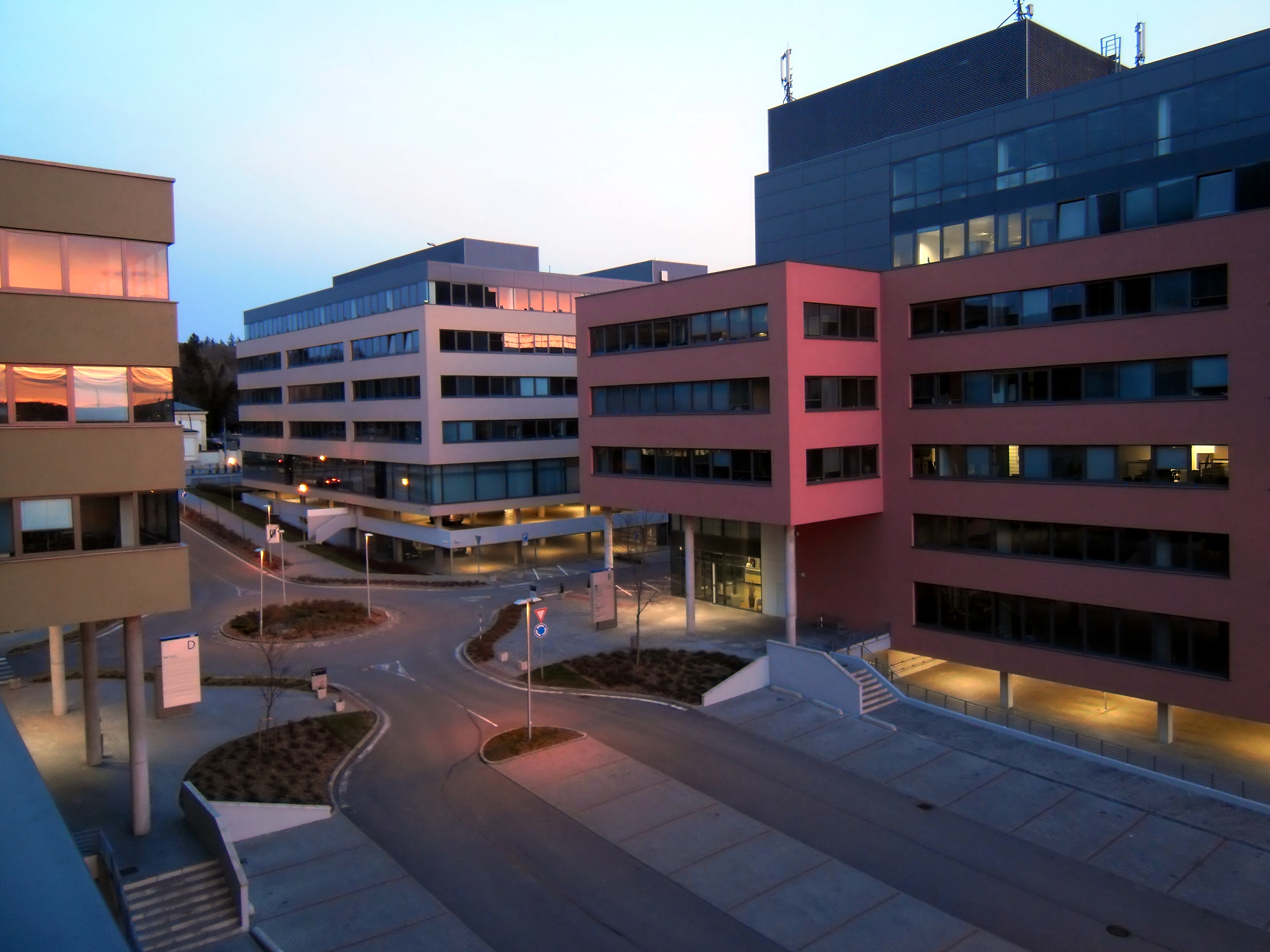 Brno - London square